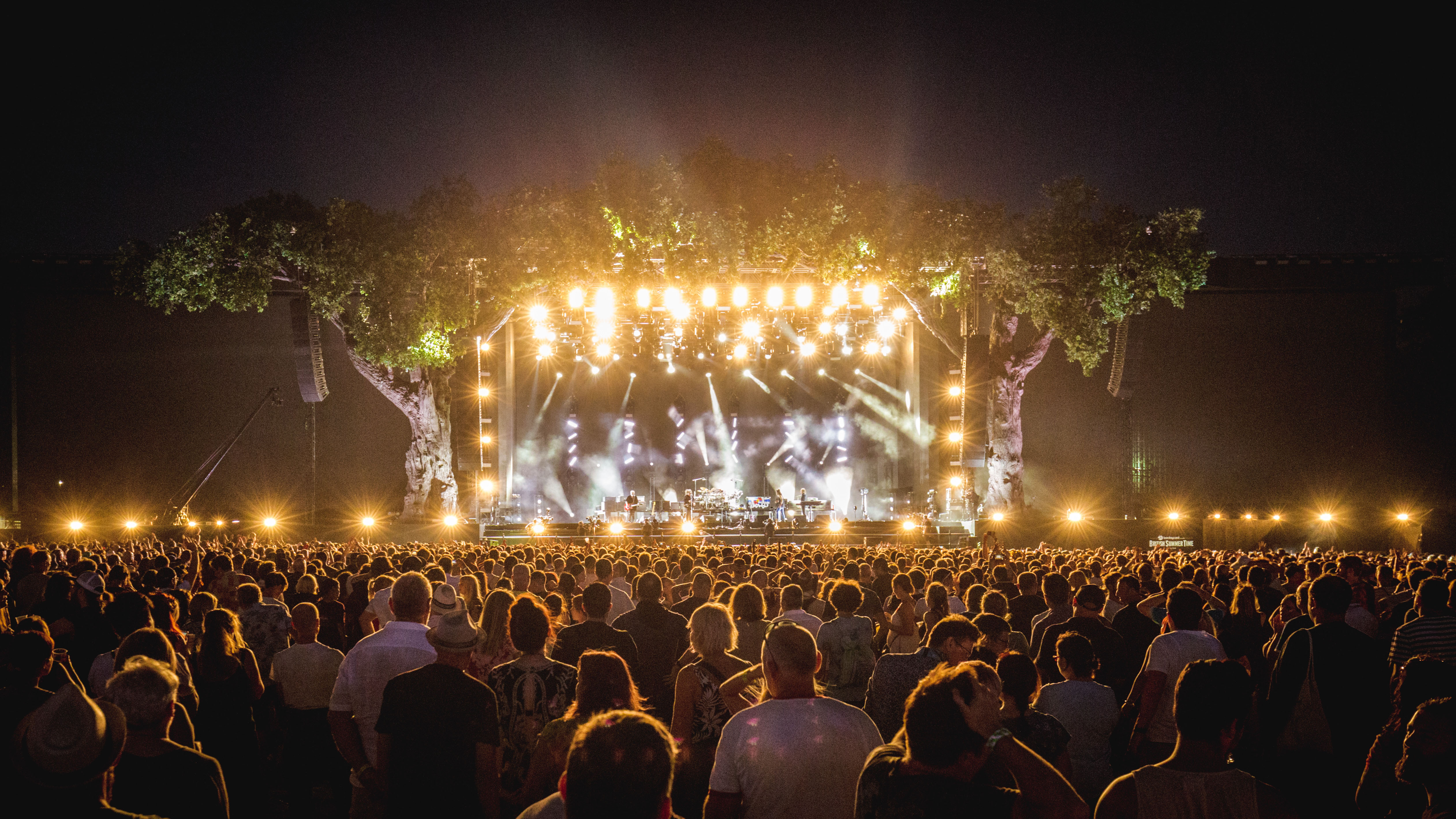 Concert at BST Hyde Park in 2018